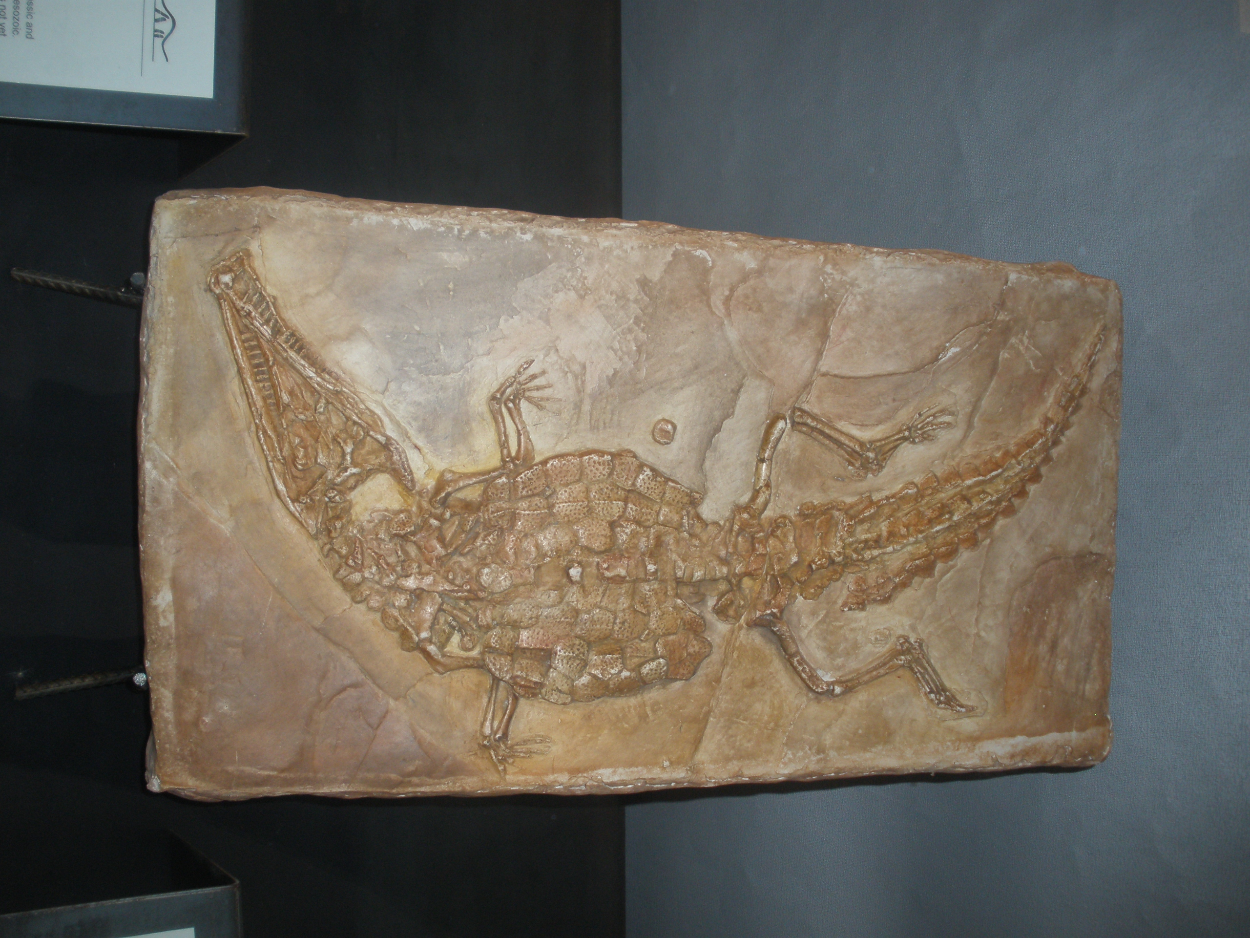 fossil crocodile